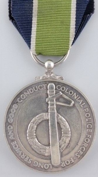 Awarded for 18 years service in the police of British colonies, dominions and overseas territories.